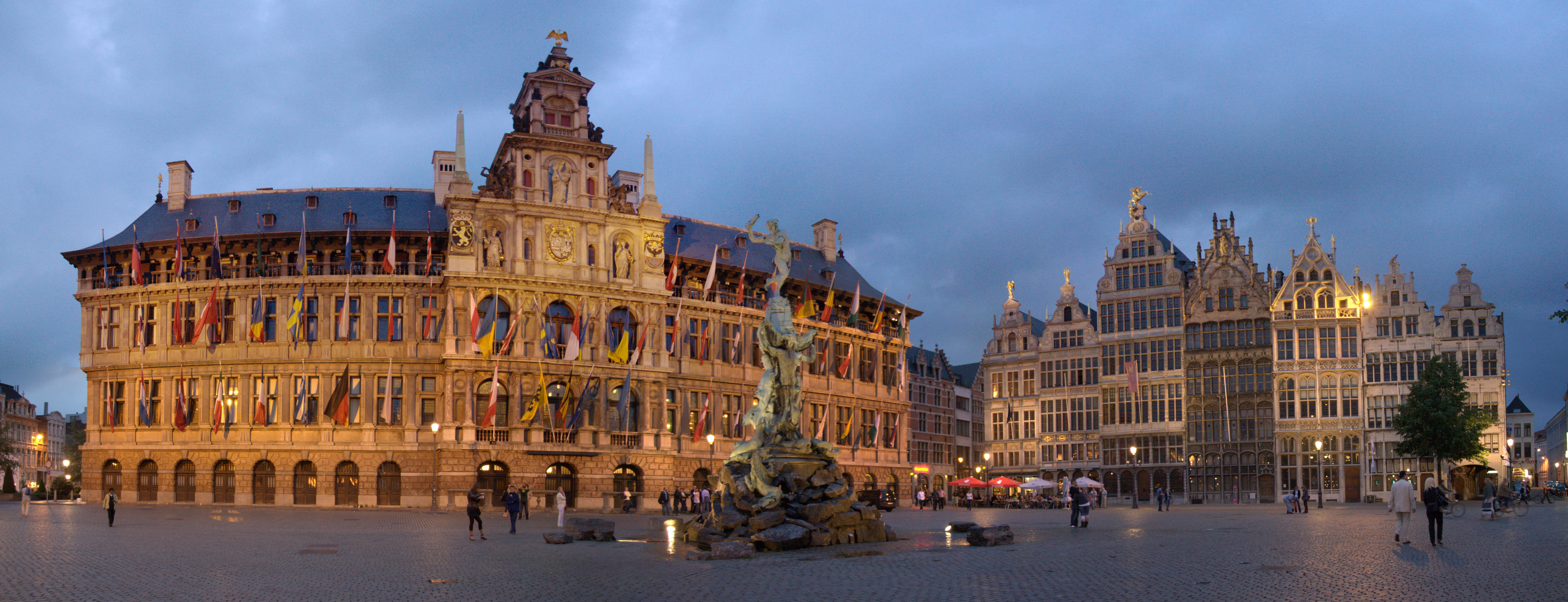 Grote Markt in Antwerp at night - panorama